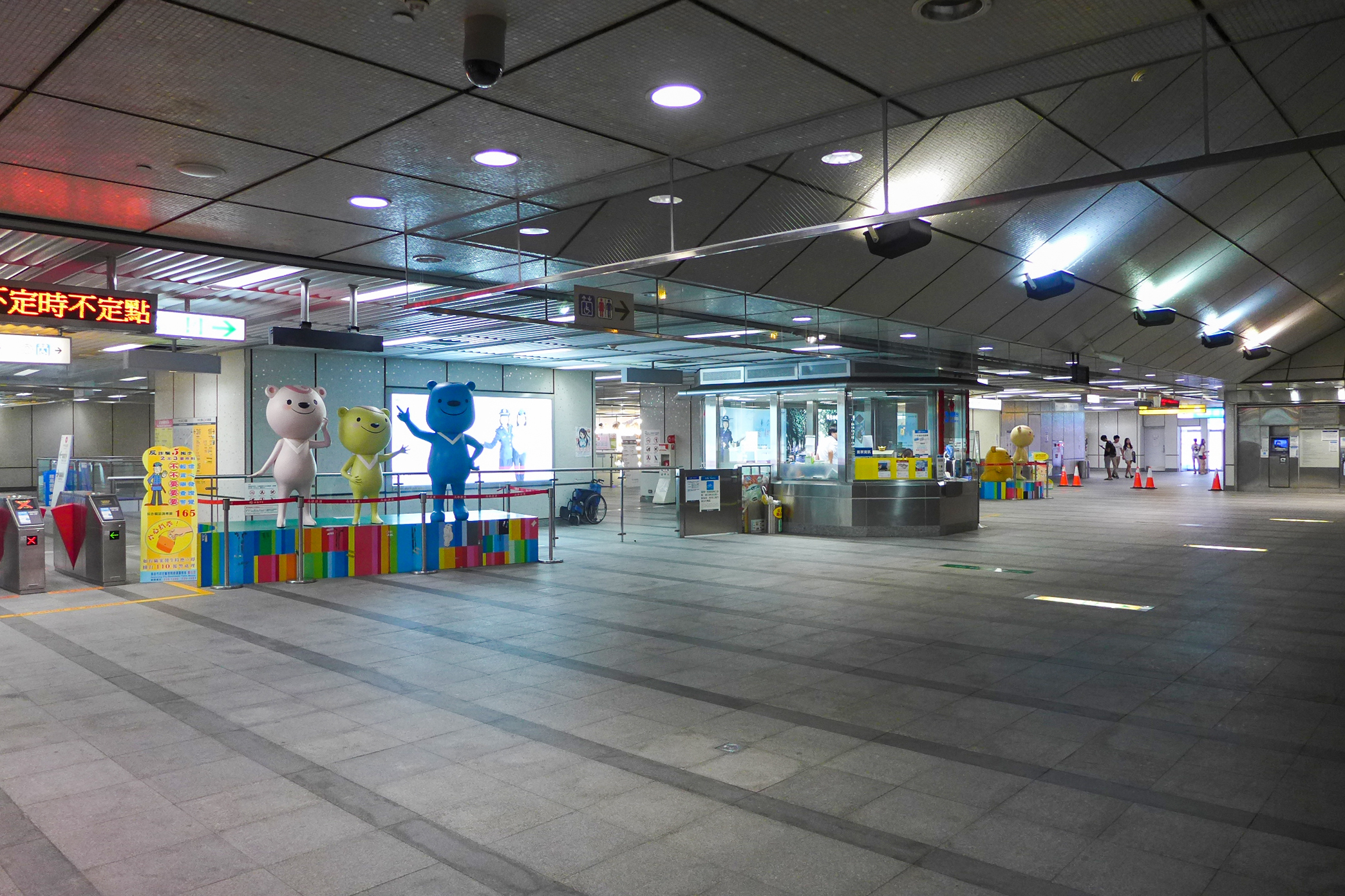 Central Park Station